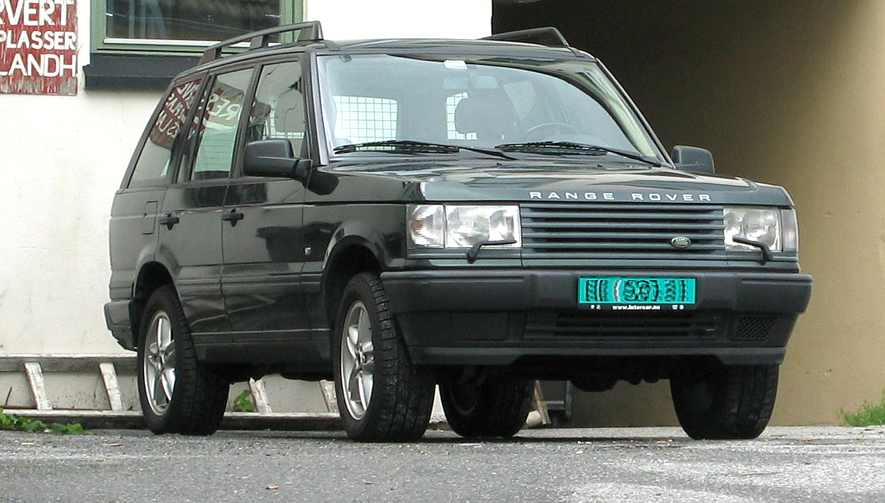 Second generation Range Rover (called P38a) in Kongsberg, Norway on 2005-07-21.